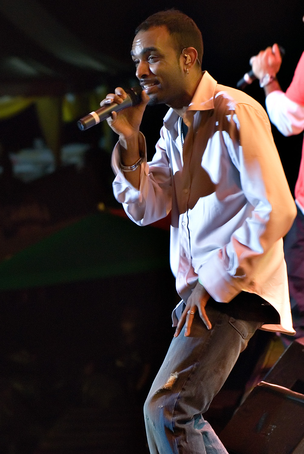 RikRok performing with Shaggy at Live and Loud KL 2007.